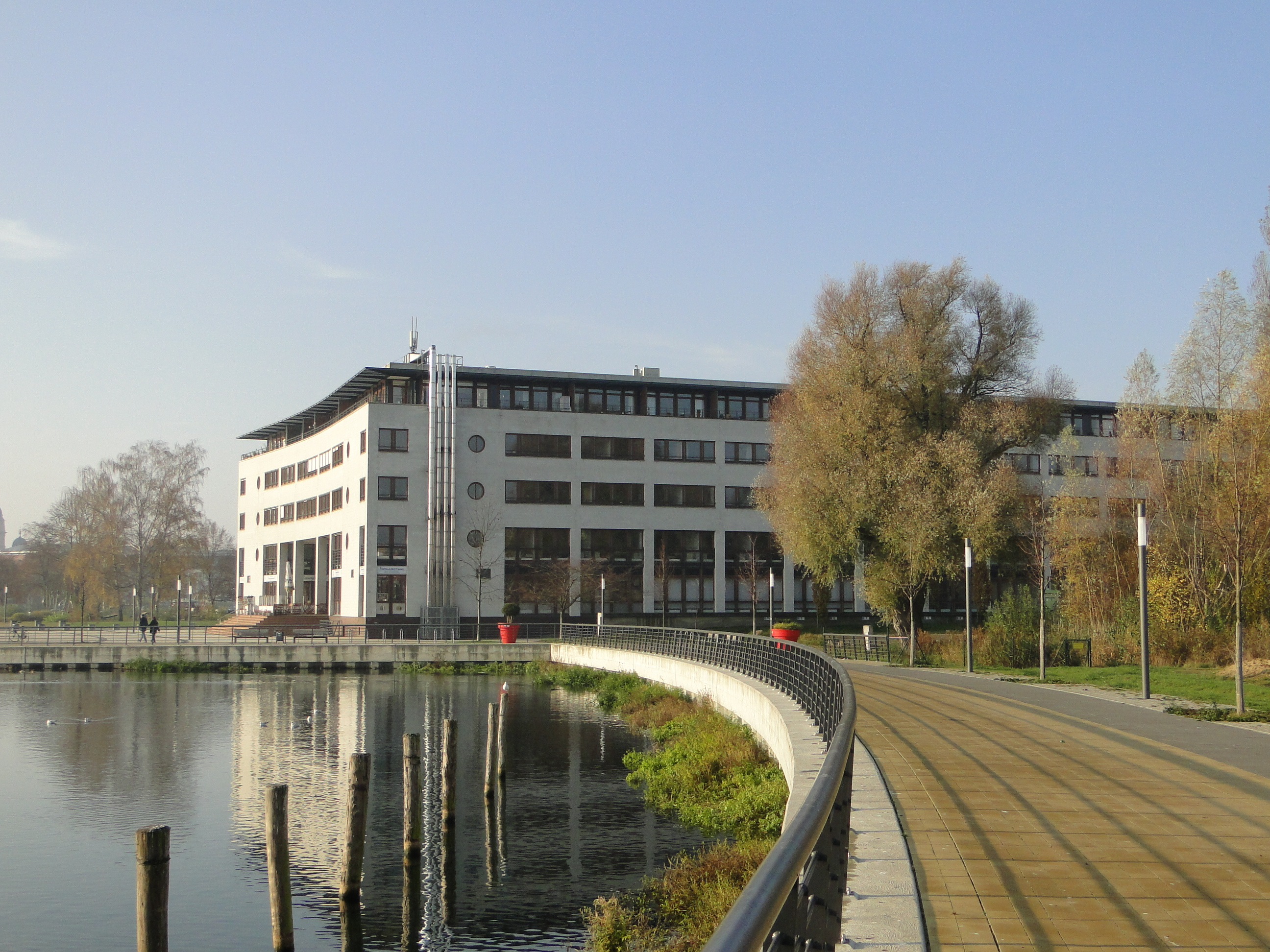 Werderhof from shore of Schwerin lake in Schwerin, Mecklenburg-Vorpommern, Germany